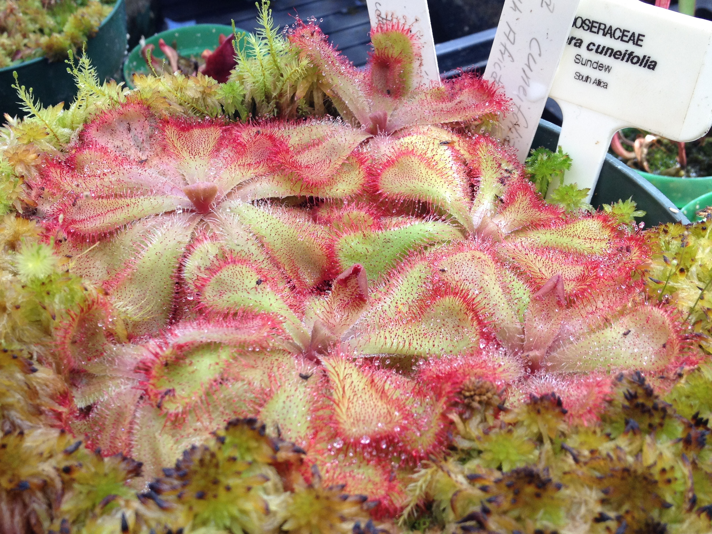 Drosera cuneifolia at UCSC Greenhouse.